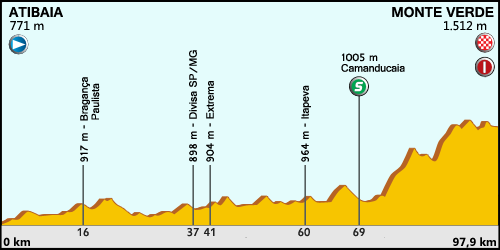 Profile of the 7th stage of the 2014 Volta Ciclística de São Paulo